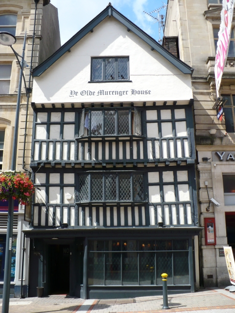 Ye Olde Murenger House The building is dated at 1541 and is a Grade II Listed Building, possibly the town house of the first High Sheriff of Monmouthshire, Sir Charles Herbert. There is some uncertainty as to whether this was ever the house of a Murenger or just given the name in the 19th century. The Murenger was the official responsible for collecting and administering the duties on merchandise entering and leaving the town. The façade has changed over the years as it has undergone extensive repairs.